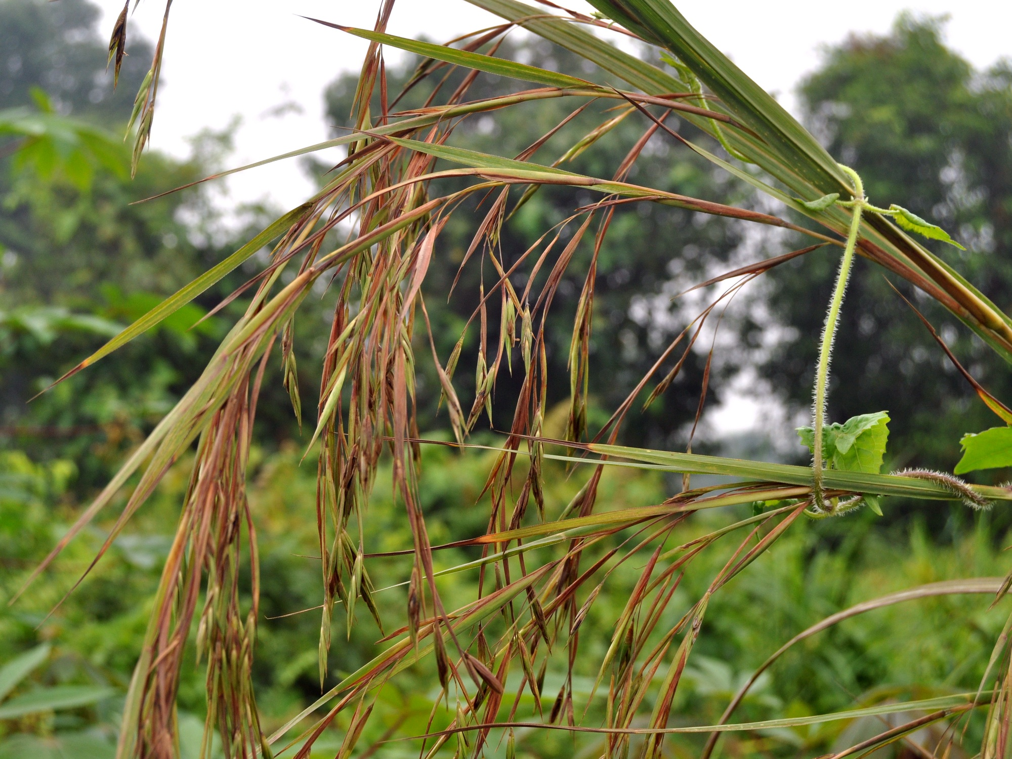 Themeda gigantea, terminal panicles. From Rokan Hilir, Riau, Indonesia.